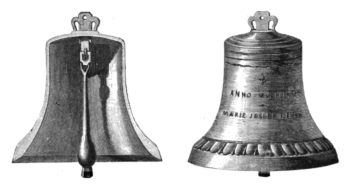 Cutaway drawing of a church bell, showing construction. Alterations: none